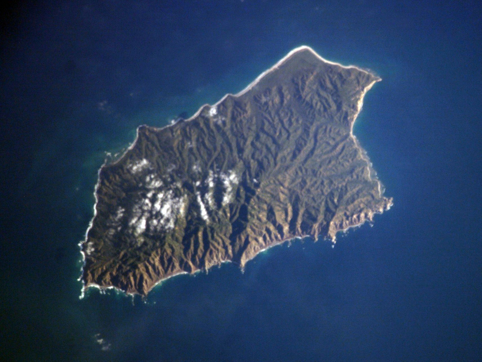 NASA astronaut image of María Magdalena Island, Islas Marías, Mexico)